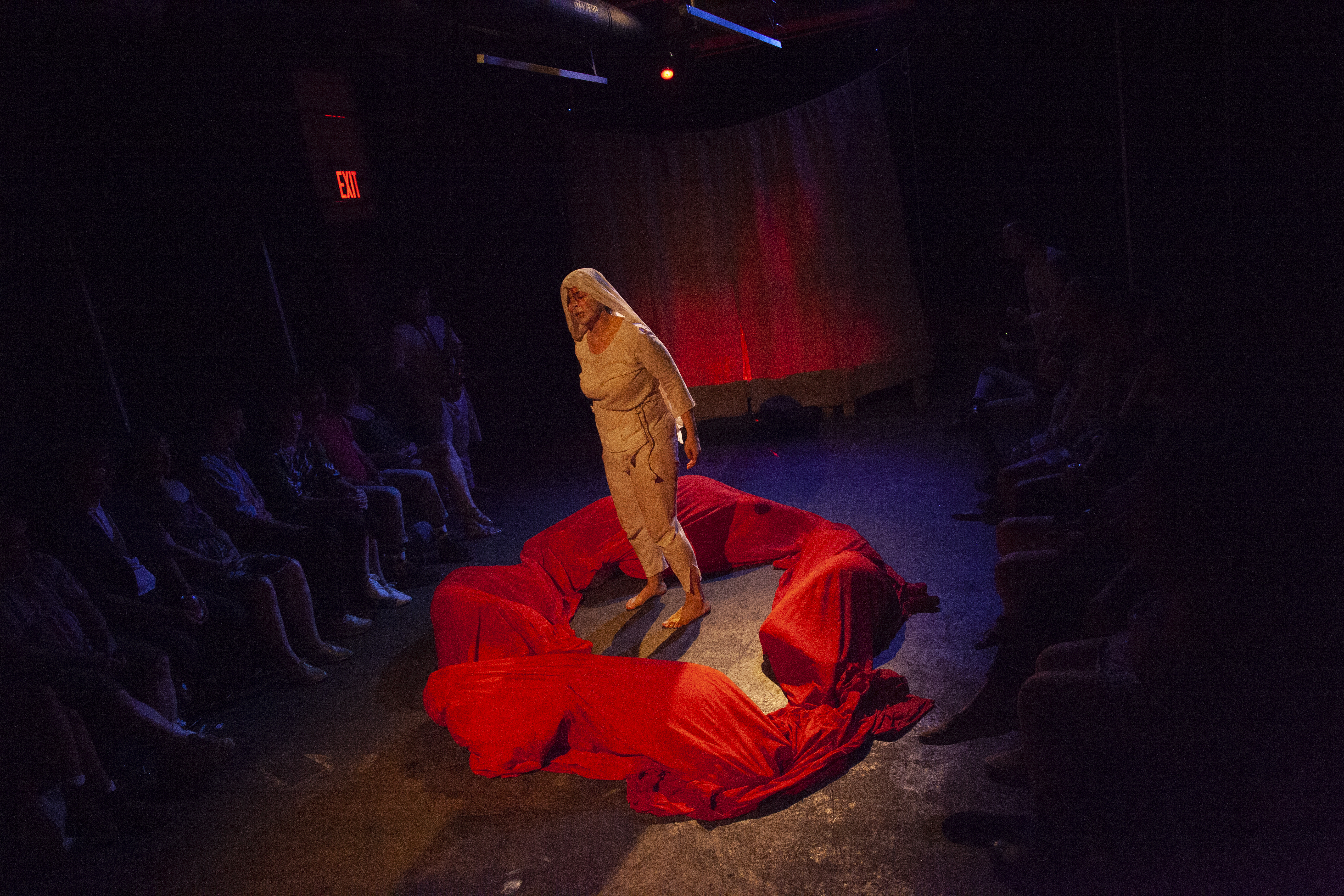 Felicity Doyle in Oresteia by Aeschylus, adapted by Ryan Castalia for Stairwell Theater, 2019 presented at h0l0, Brooklyn